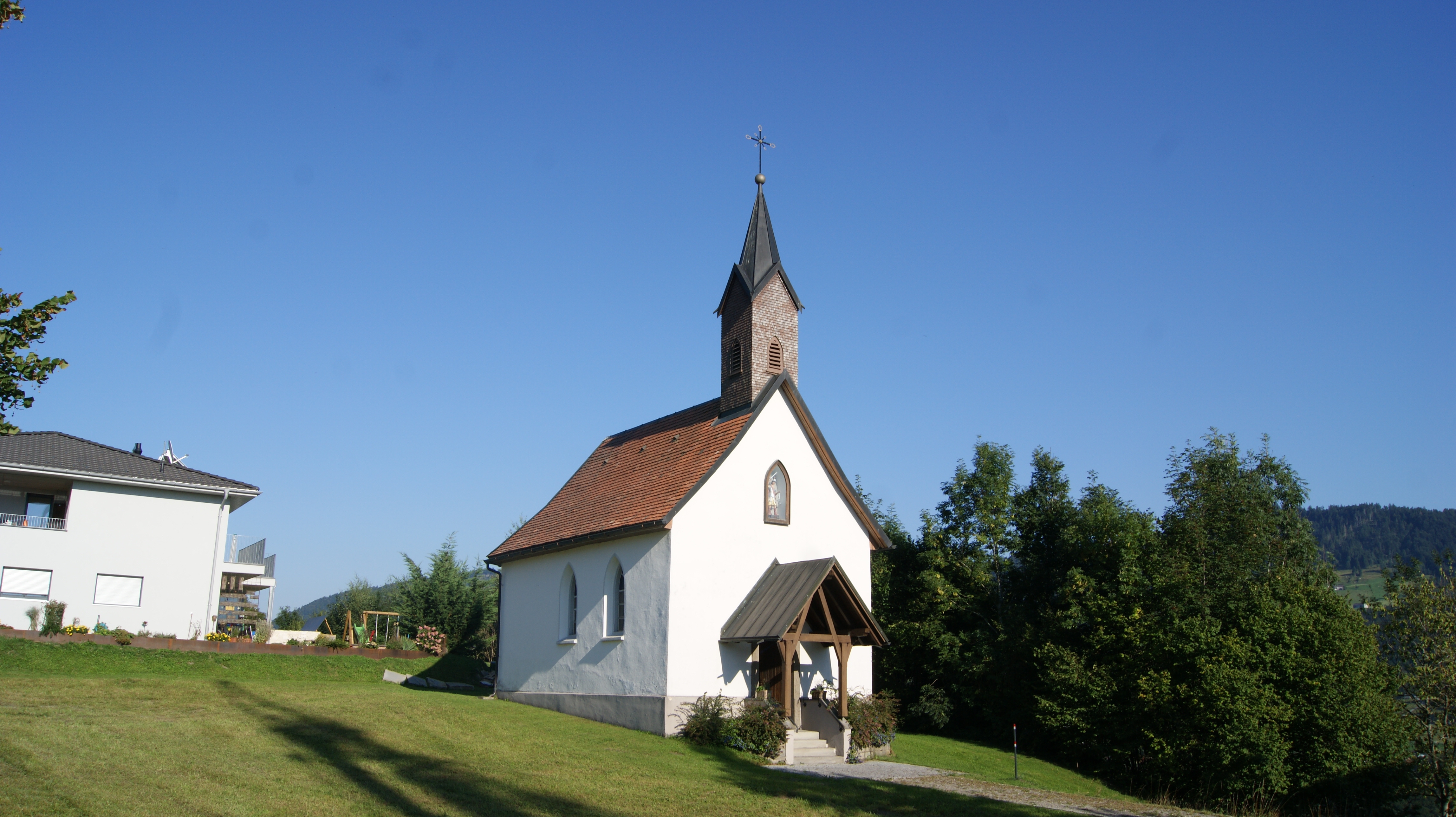 Chapel St. Michael in Farnach, municipality Bildstein, Vorarlberg, Austria. Chapel of outdoor, west side.